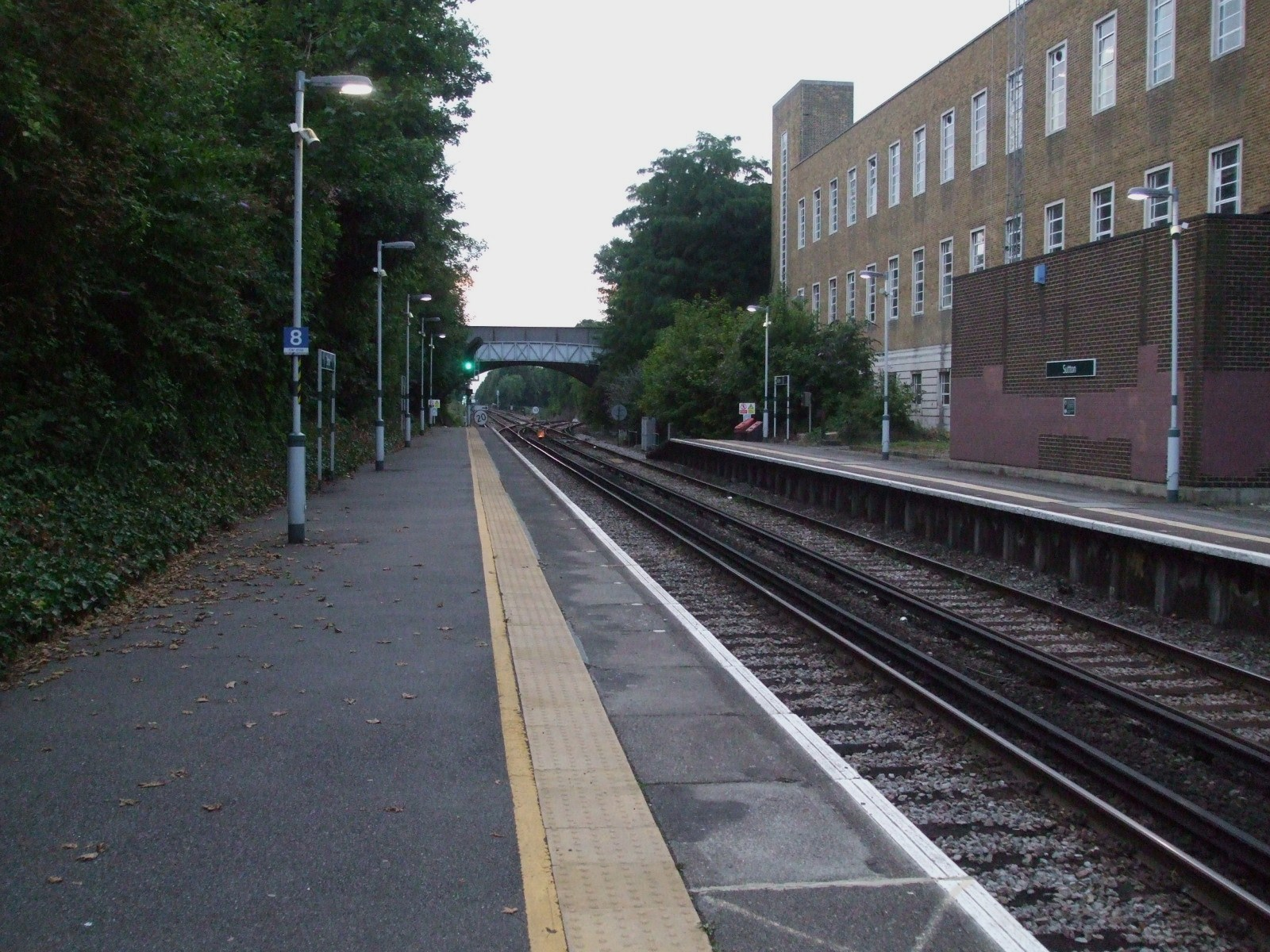 Looking west from platform 2 at Sutton railway station towards the junction with the Wimbledon branch, heading right, towards the north